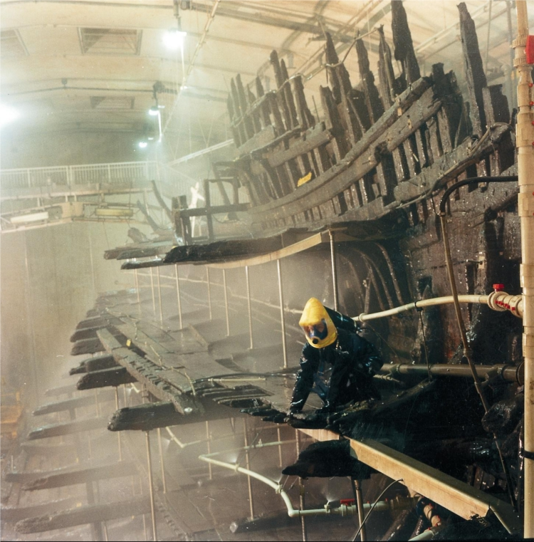 The Tudor period carrack Mary Rose under going conservation with polyethylene glycol at the Historic Dockyard in Portsmouth, United Kingdom.